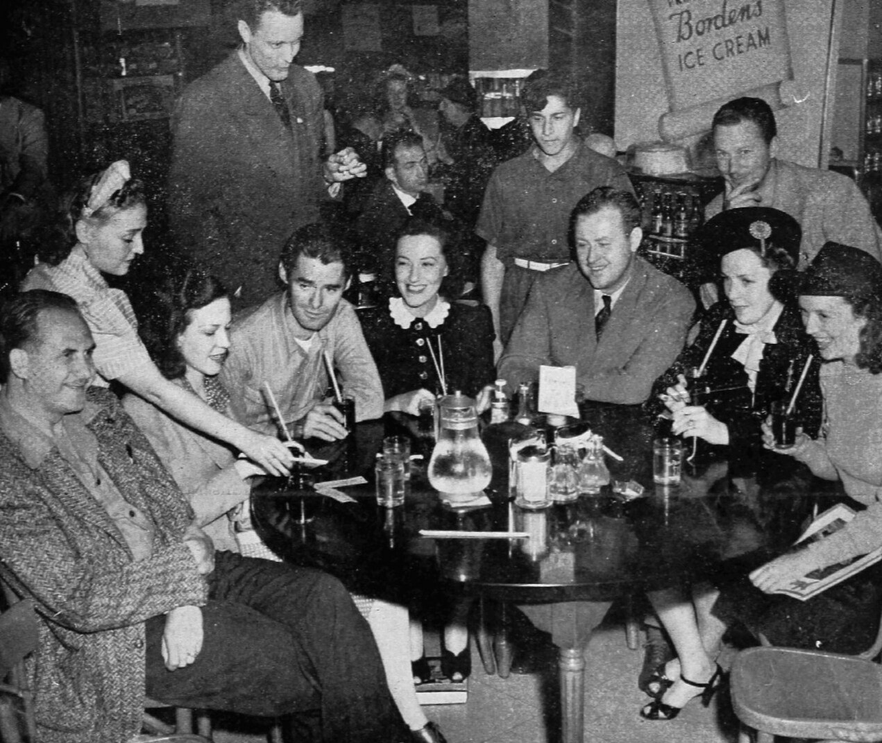 Cast of the radio program Girl Alone taking a break at a Merchandise Mart restaurant (Chicago) in January 1941. Seated, from left:Herbert Butterfield (Zeihm), Laurette Fillbrandt (Virginia Richman), John Larkin (Frankie McGinnis), Betty Winkler (Patricia Rogers), Pat Murphy (Scoop Curtis), Joan Winters (Alice Ames Warner), Frances Carlon (Ruth Lardner). Standing from left: Director Charles Urquhart, Frankie Pacelli (Jack), Henry Hunter (Scotson Webb) A search for renewal was done in publications for the years 1968 and 1969. There were no listings for the title Radio Varieties. There's no evidence of renewal for the magazine.